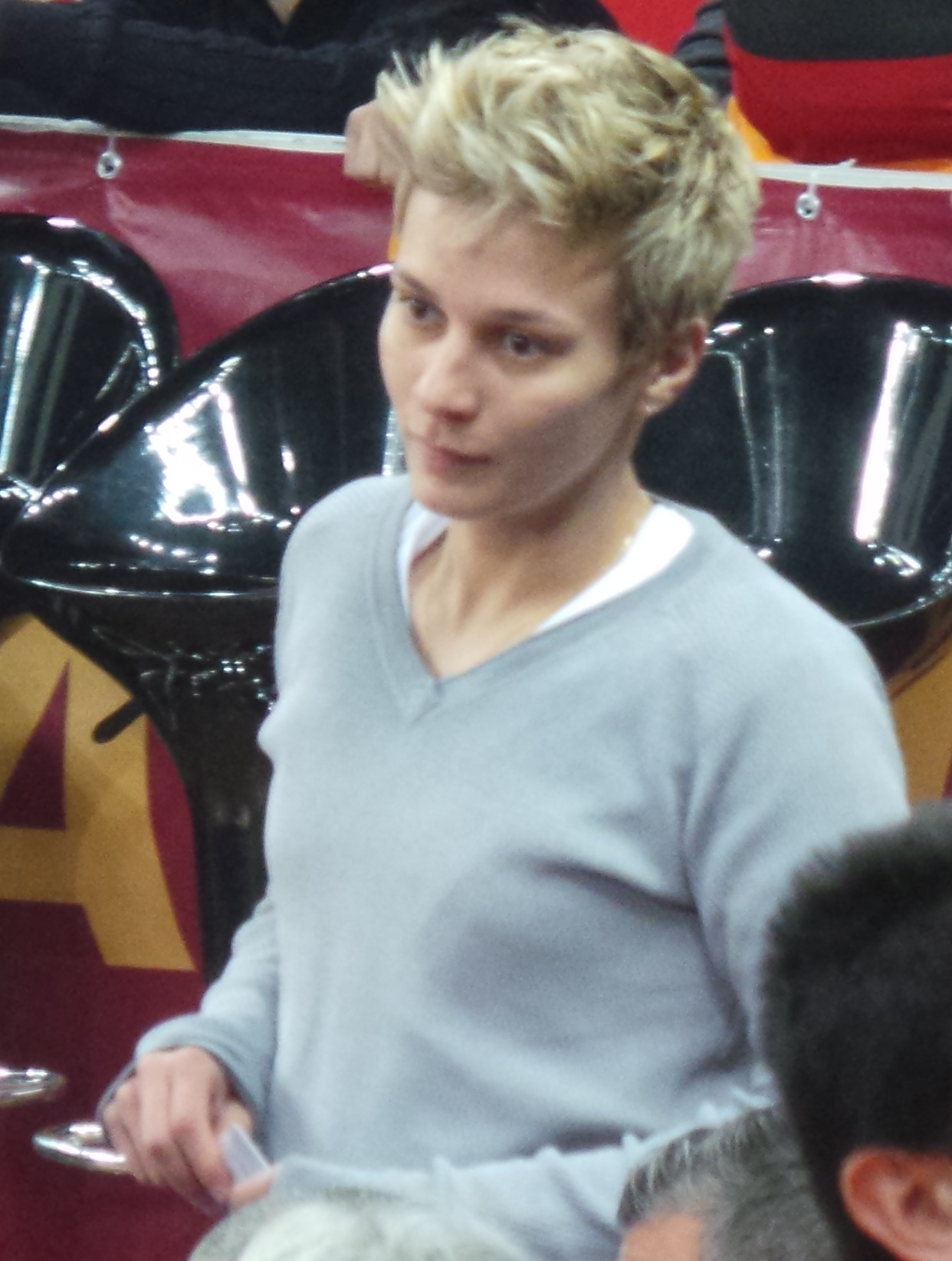 Işıl Alben